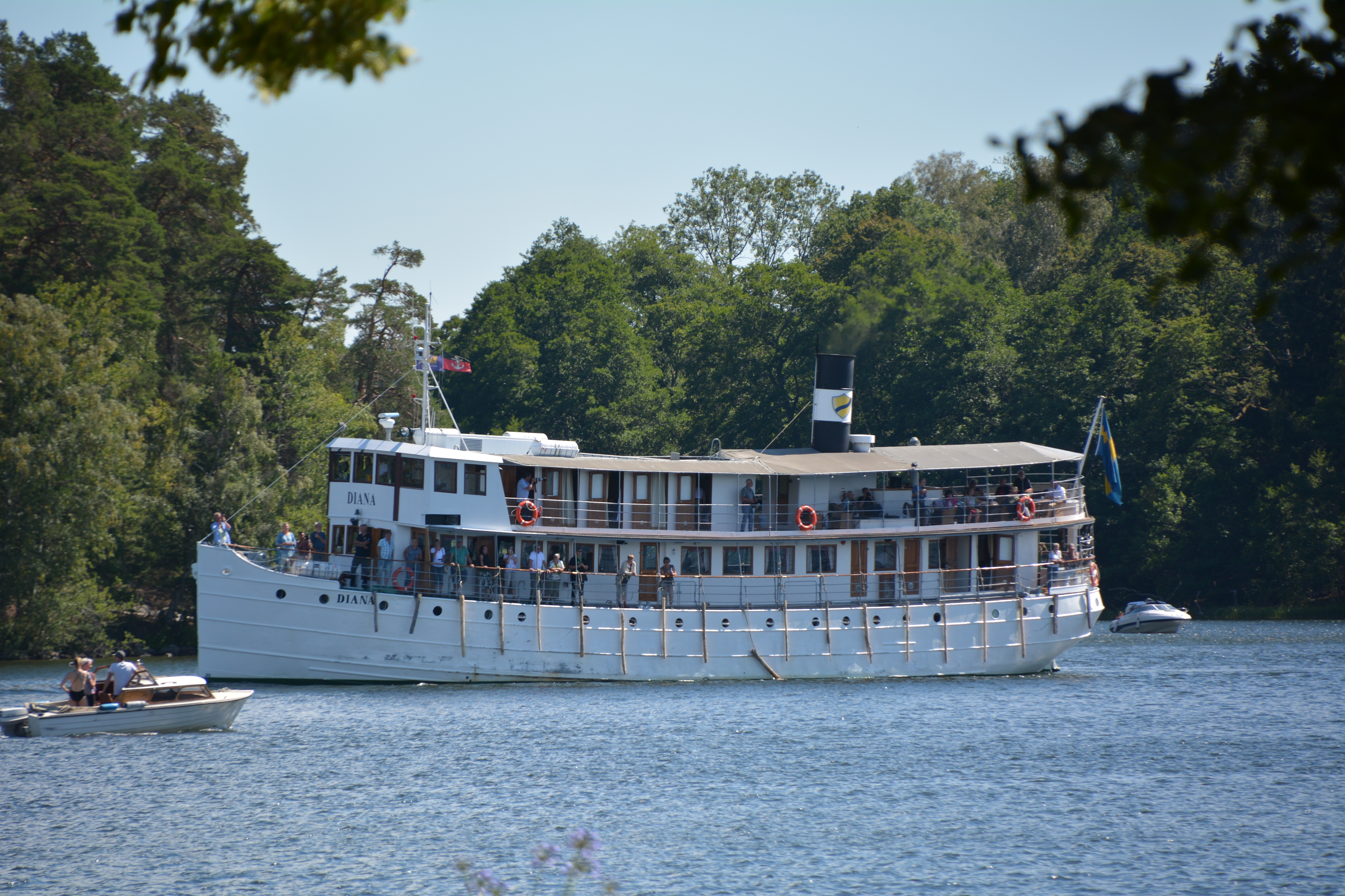 M/S Diana outside Drottningholm Castle